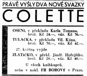 books by Colette in Czech, advertisement 1931